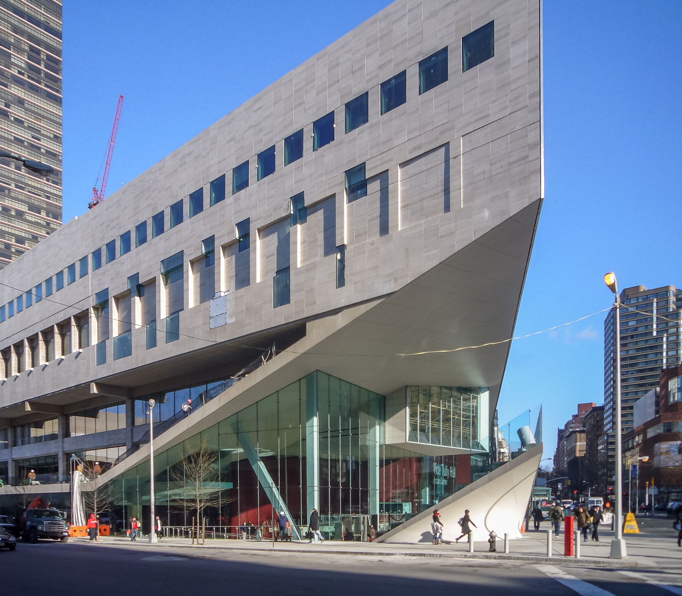 Photograph of the renovated facade of the Juilliard School building, at 65th and Broadway, New York City. Original Building by Pietro Belluschi, 1969; renovation by Diller Scofidio + Renfro 2009. Alice Tully Hall Lobby.